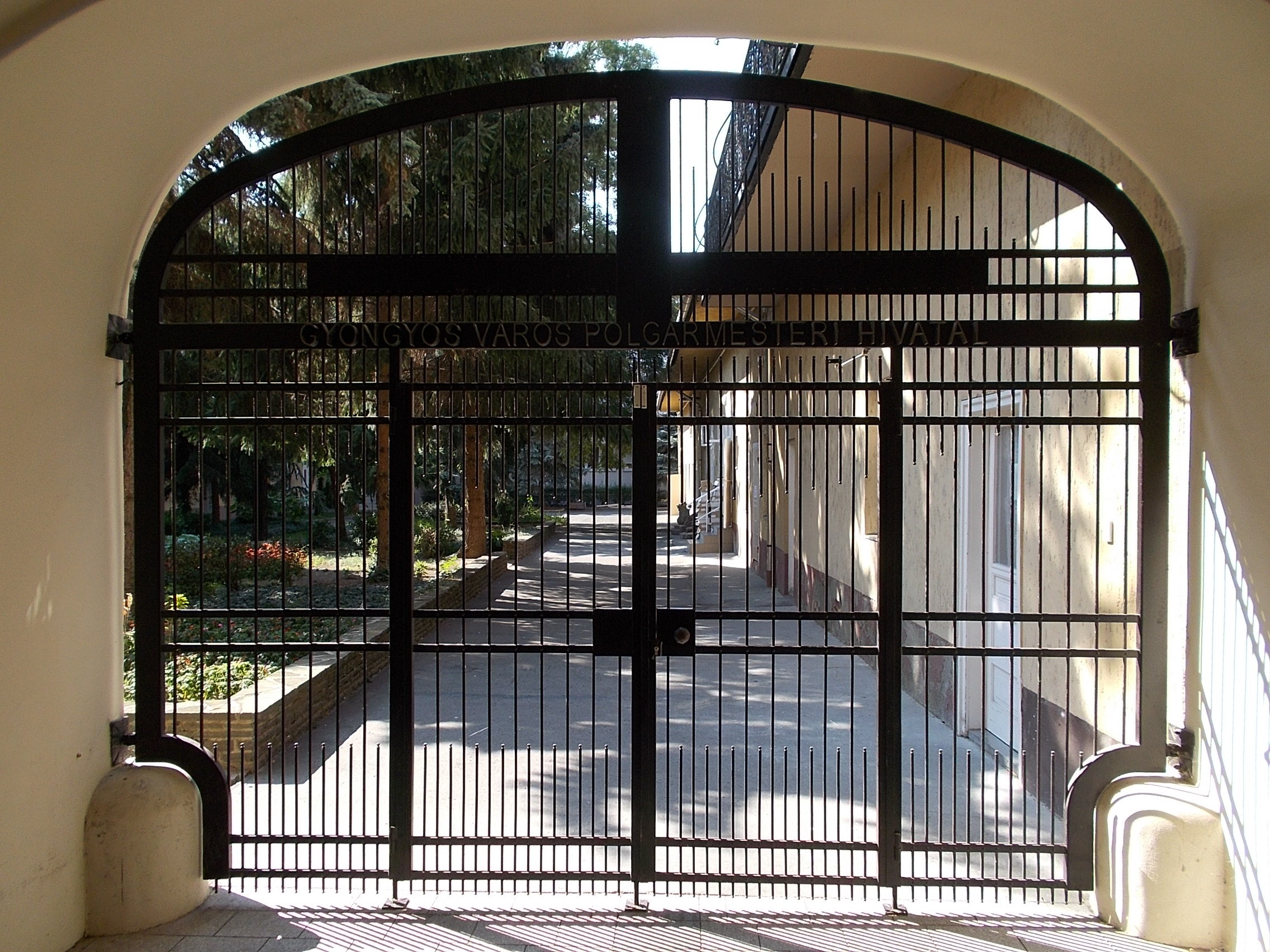 Gyöngyös Town Hall. Listed 1628. - 13, Fő square, Gyöngyös, Heves County, Hungary